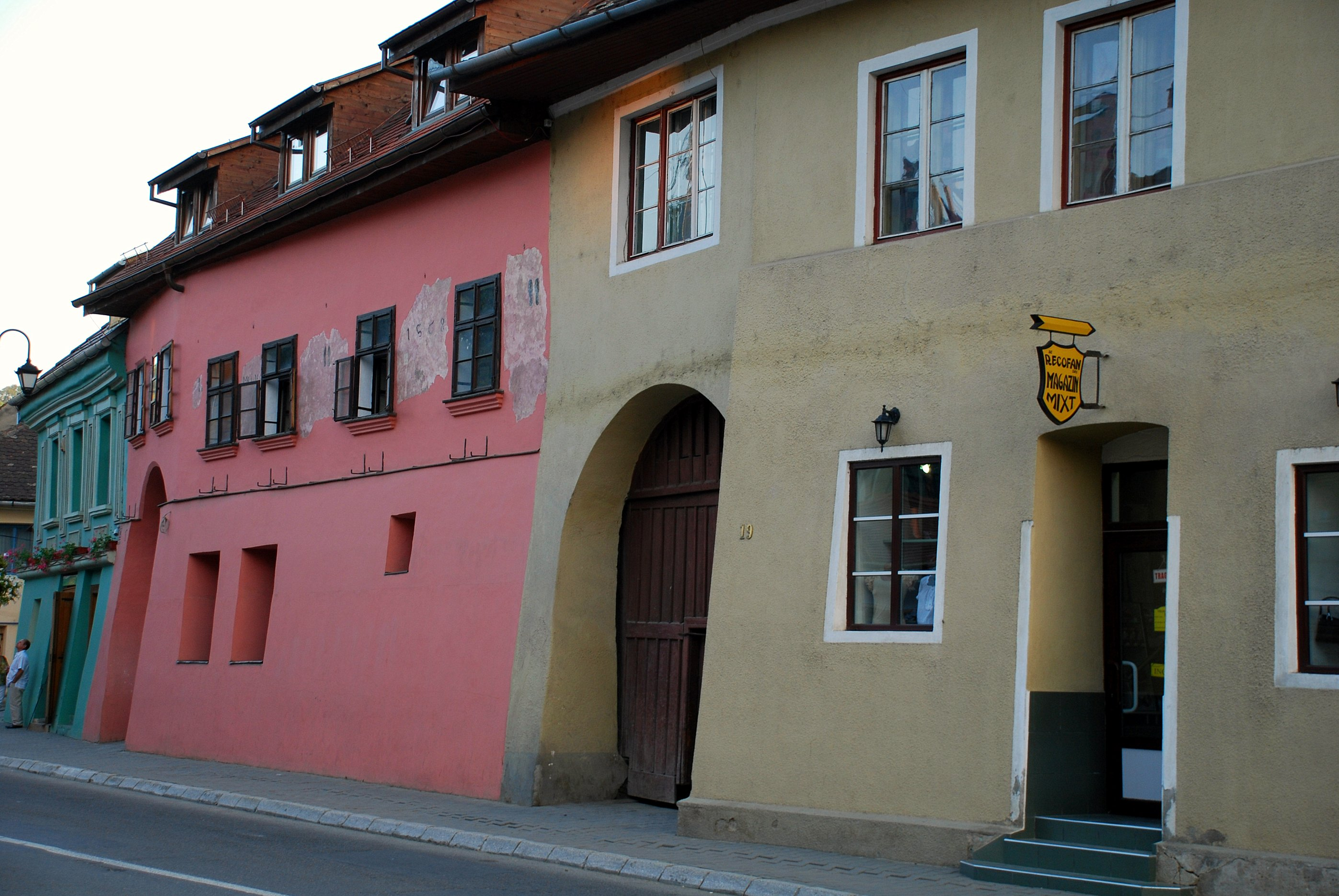 More info: My photostream